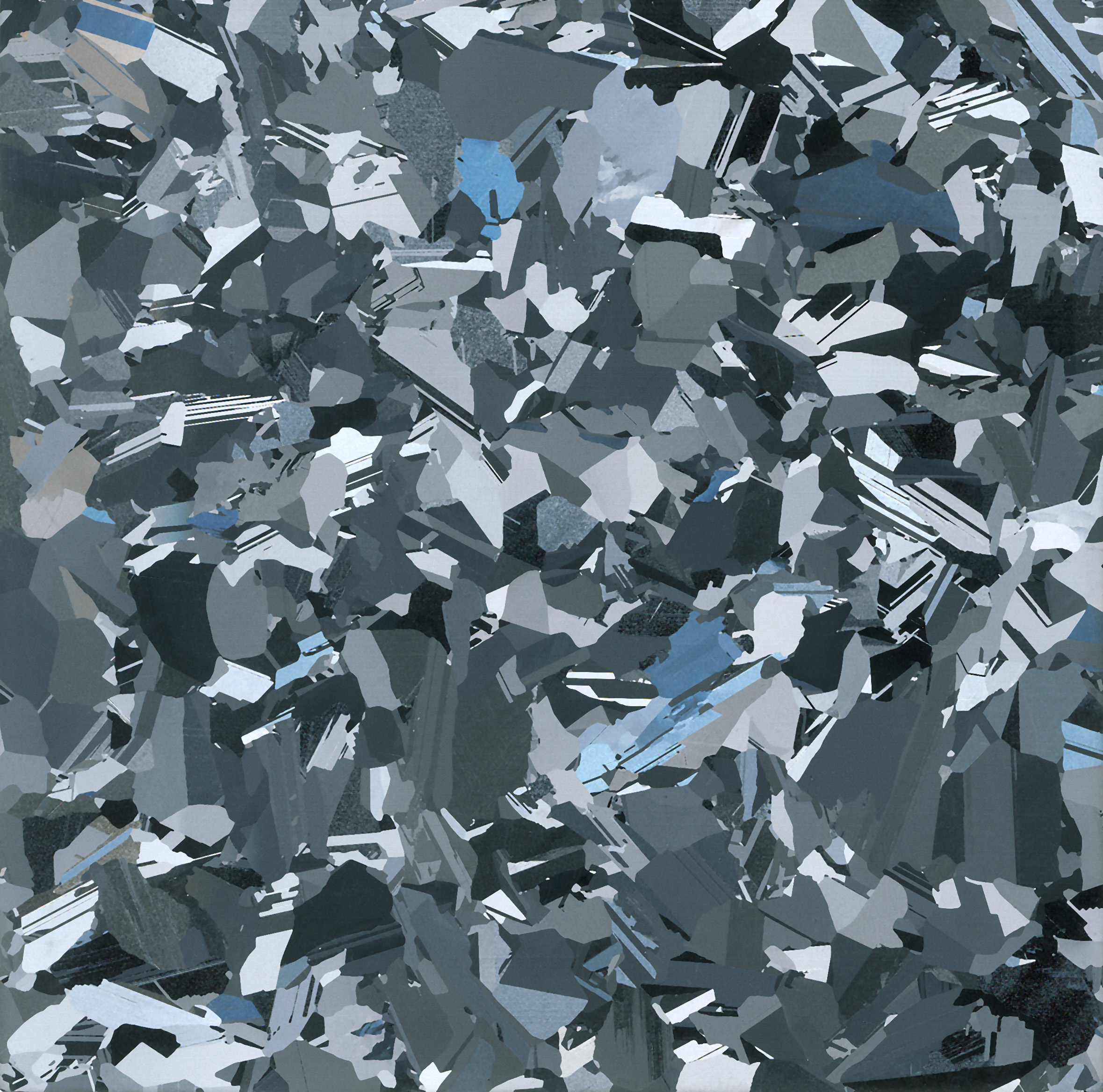 Textured polycrystalline Wafer 100x100 mm, as it is used for the production of silicon solar cells (wafer after sawing and texturisation)